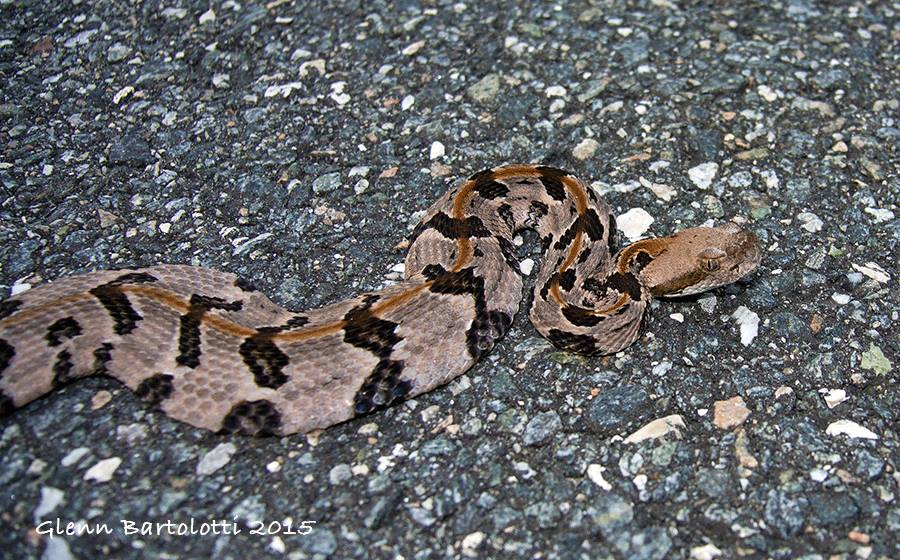 Crotalus horridus Juvenile, Florida